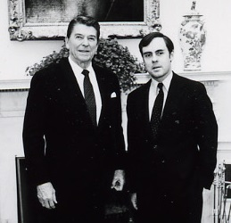 Howard Kent Walker and Ronald Reagan in Oval Office in 1982